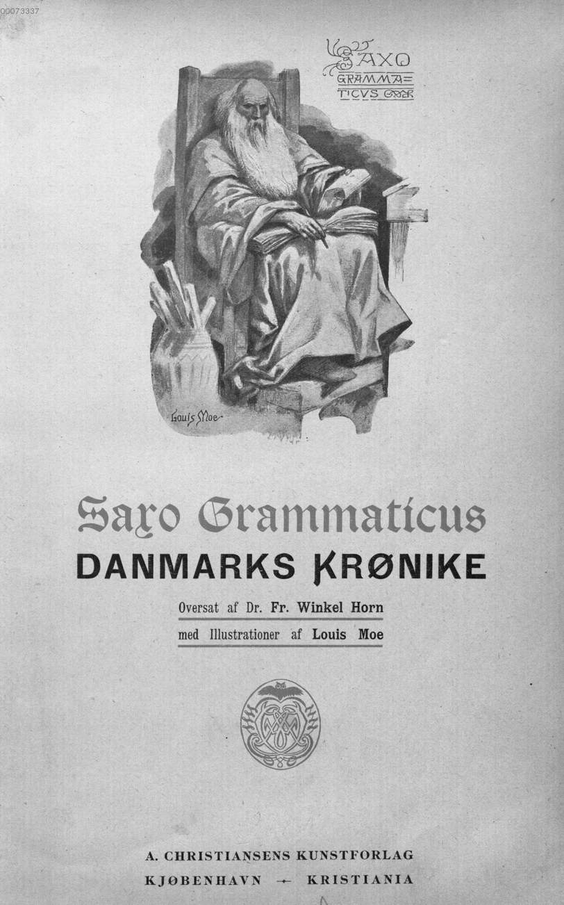 Saxo Grammaticus: Danmarks Krønike (Gesta Danorum) - tr. Frederik Winkel Horn (Danish) - illust. Louis Moe